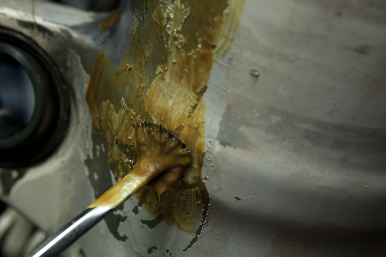 Paint remover is applied to an aircraft’s landing gear during an inspection aboard aircraft carrier USS Enterprise, June 5. After the paint is removed, the landing gear is inspected by intermediate level Marines to ensure there are no cracks on the part’s surface.